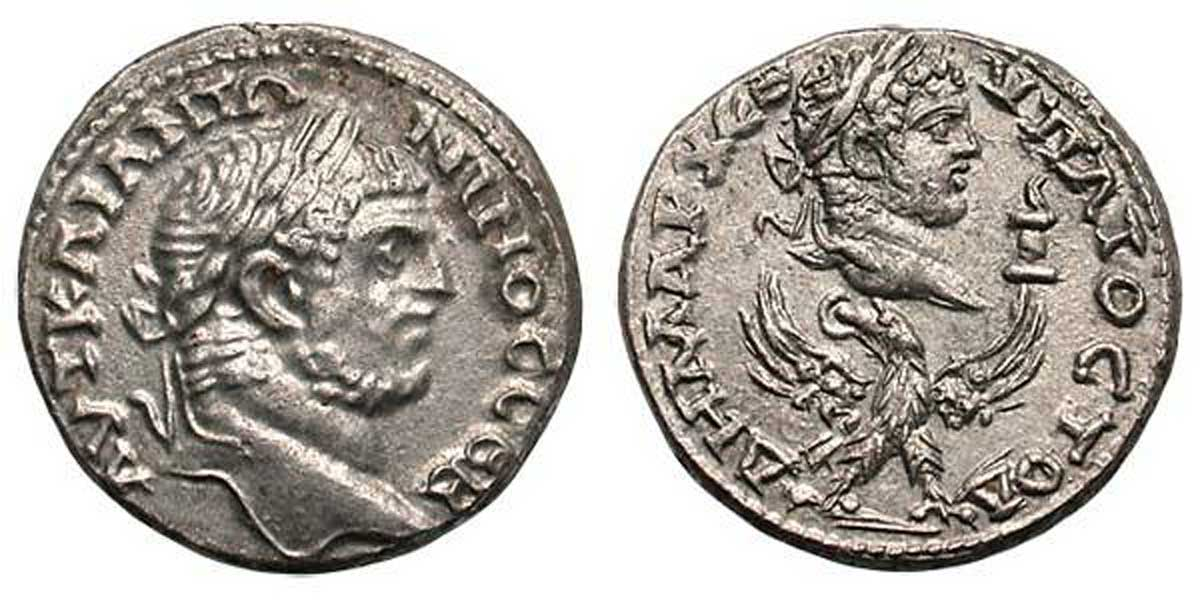 Monnaie frappée en la cité de Néapolis